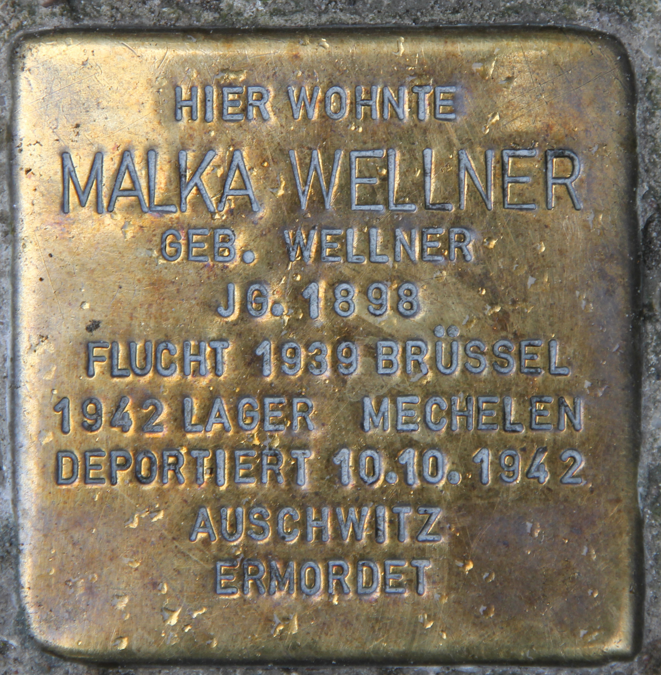 "Stolperstein" (stumbling block), Malka Wellner, Augsburger Straße 29, Berlin-Charlottenburg, Germany